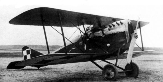 A polish licenze built Ansaldo A.1 Balilla in Lotnictwo Wojskowe service.